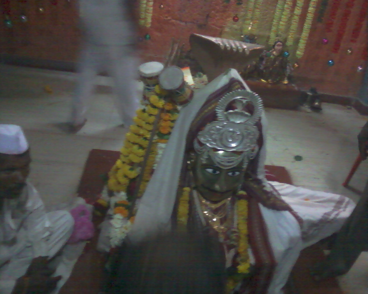 lingdev